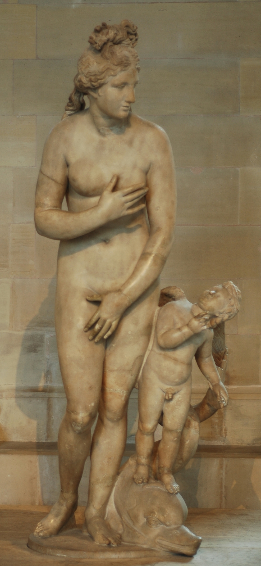 Capitoline Venus, after the Aphrodite of Cnidus. Marble, Roman artwork of the Imperial Era (2nd century CE). From Rome.